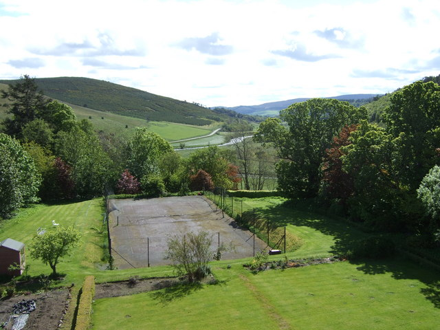 Glenbuchat House tennis court From up Glenbuchat Castle.